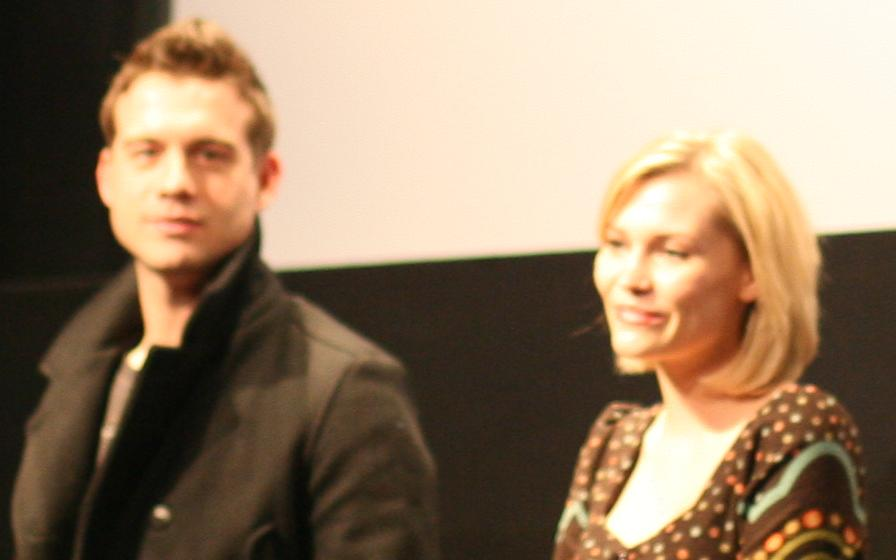 Actors Alan Bagh, left, and Whitney Moore at a screening of Birdemic: Shock and Terror